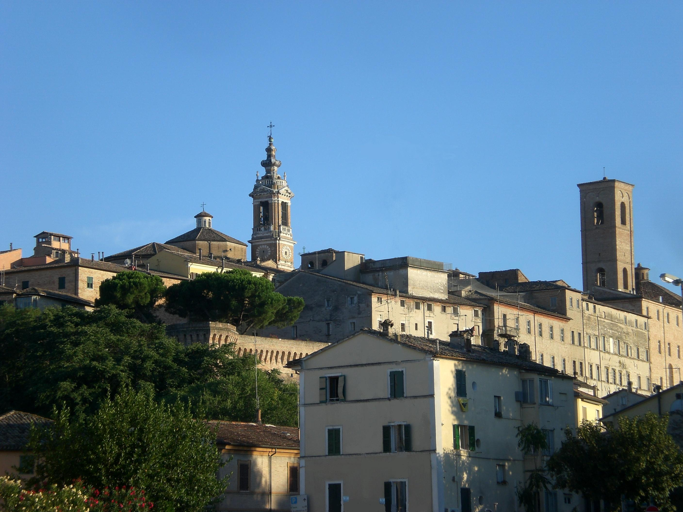 Jesi, Old Town